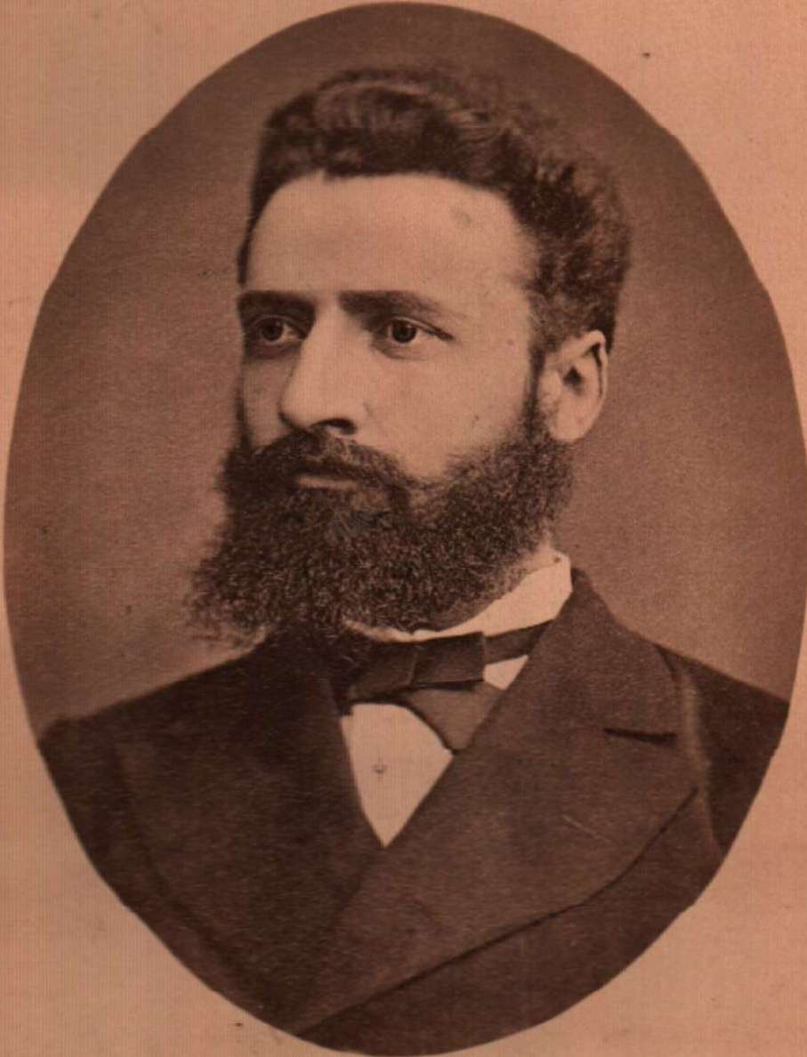 Hristo Botev (1848-1876)